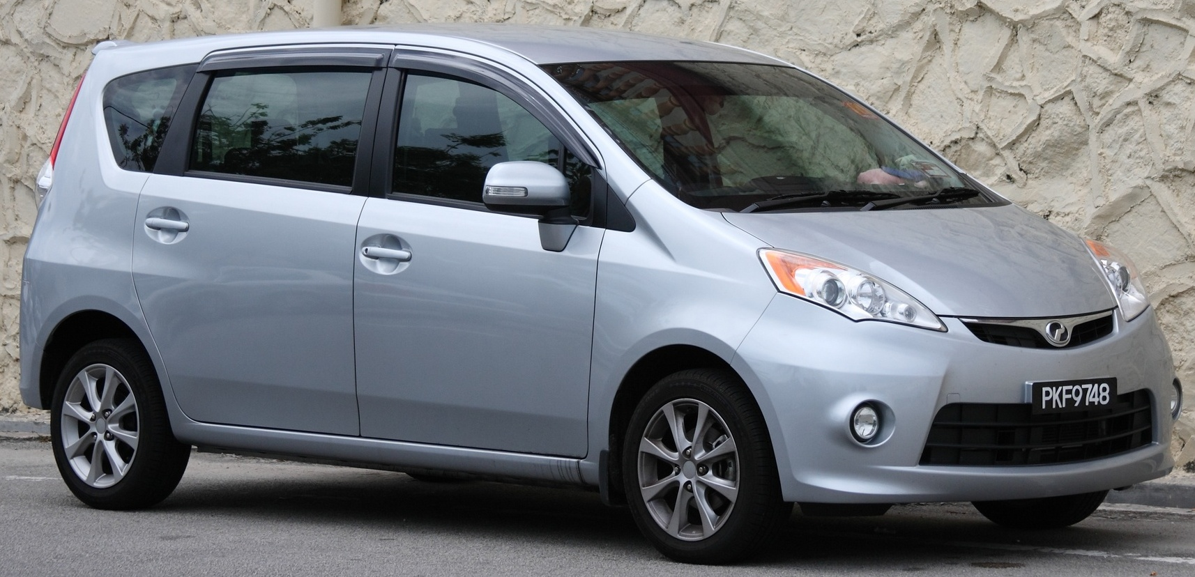 Perodua Alza in Air Itam, Penang, Malaysia